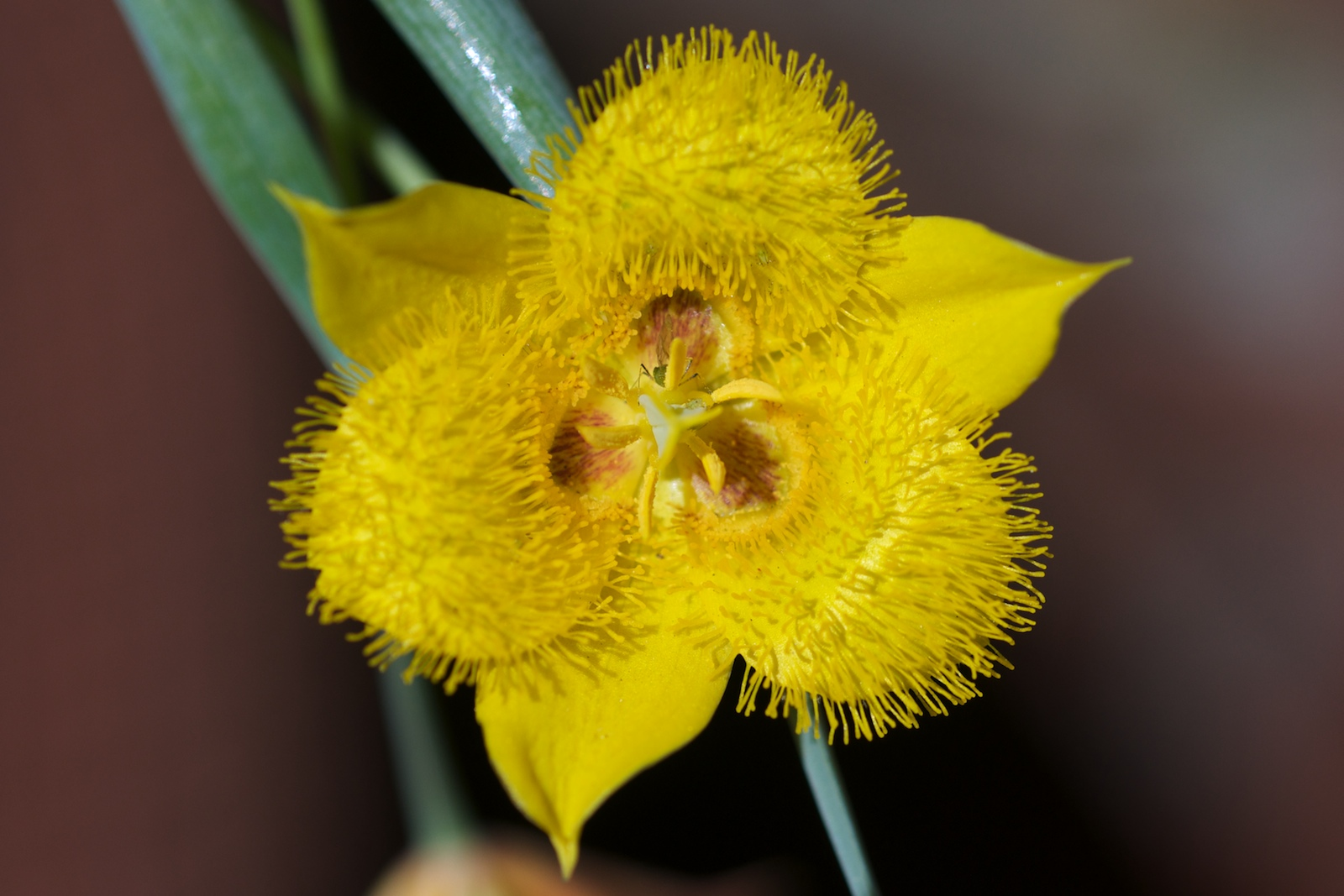 Species from Central California